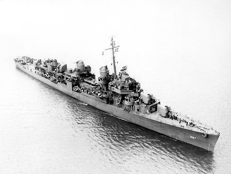 The U.S. Navy destroyer USS Bell (DD-587) off the Charleston Navy Yard, South Carolina (USA), on 11 June 1943.